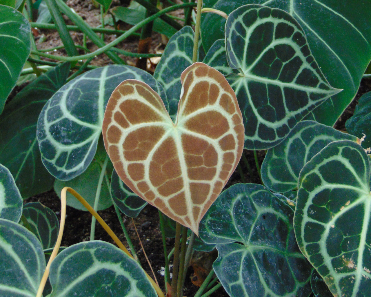 Jardin Botanique de Montréal, Anthurium clarinervium